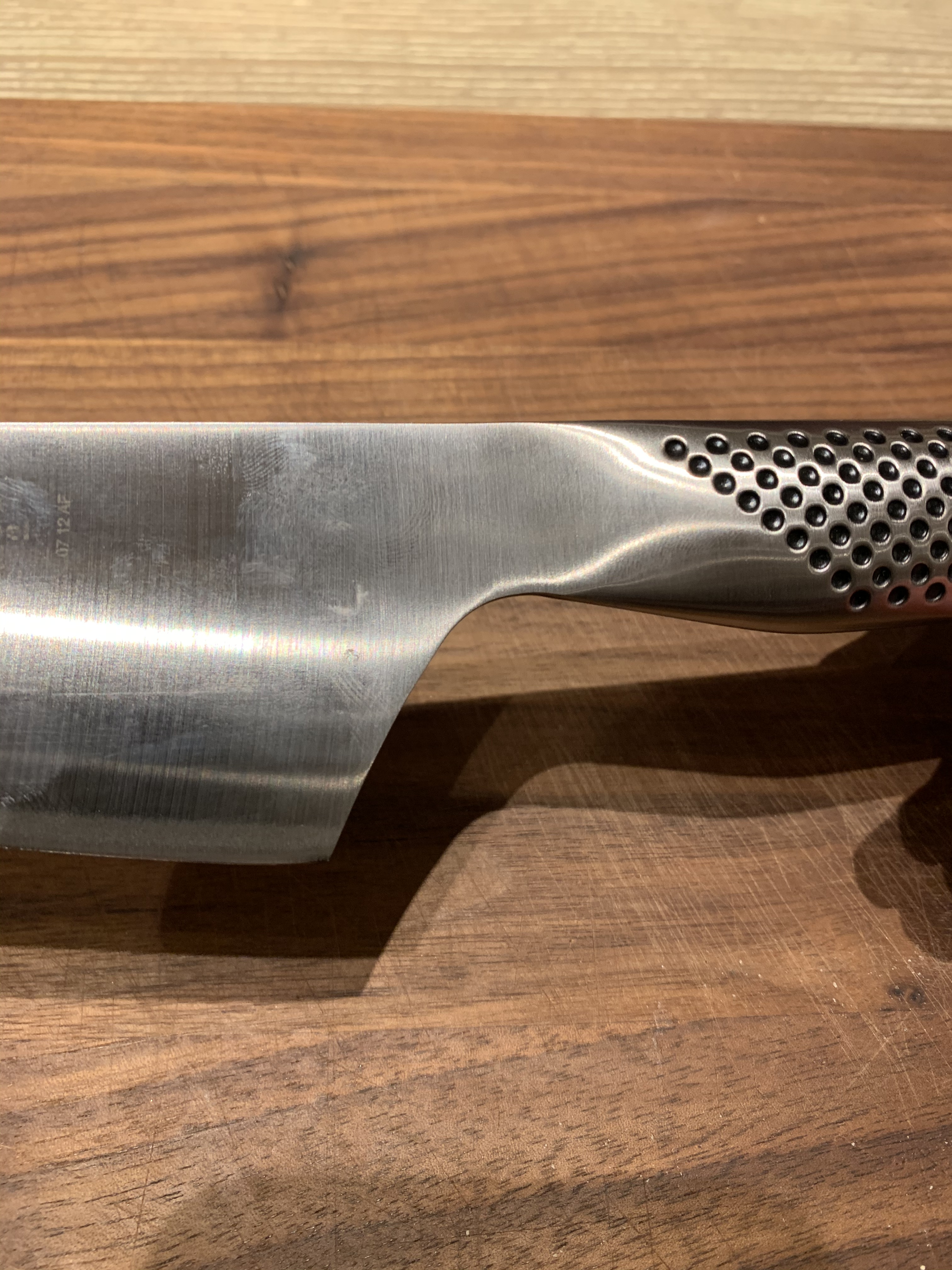 This picture is intended to show the weld junction on a GLOBAL Knife.